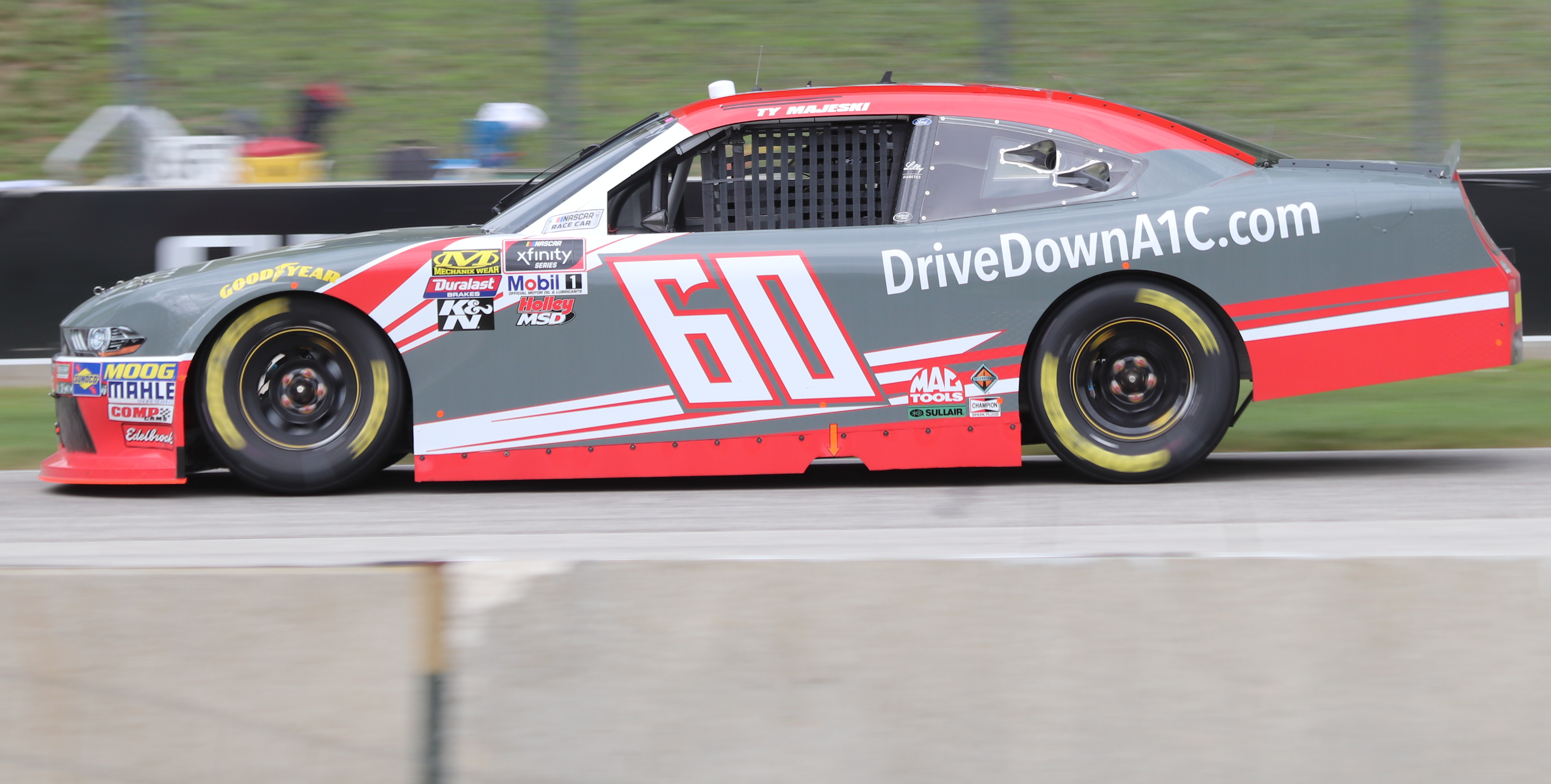 The Ford Mustang of Ty Majeski at the NASCAR Xfinity Series Johnsonville 180.